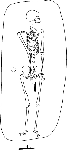 Medival Grave 29 of Neumarkt an der Ybbs.